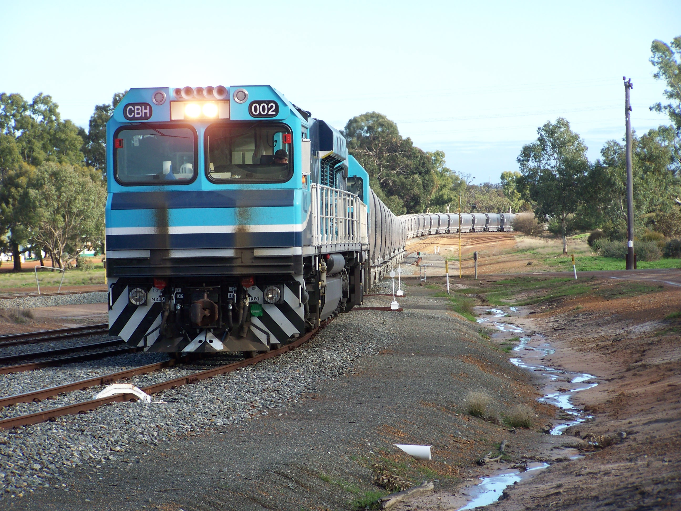 CBH class locomotives nos. CBH002 Mooterdine and CBH001 Yilliminning, with a CBH Group train at Broomehill, Western Australia. Photograph by Daryle Phillips Circa 2012